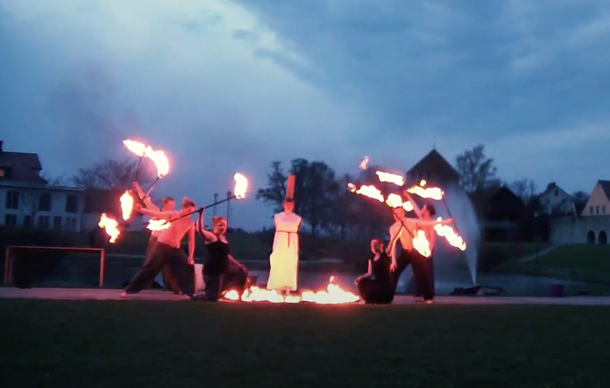 Fire show on Walpurgis night by student association Rindi in Almedalen, Visby, Sweden